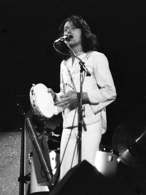 Jon Anderson of Yes.